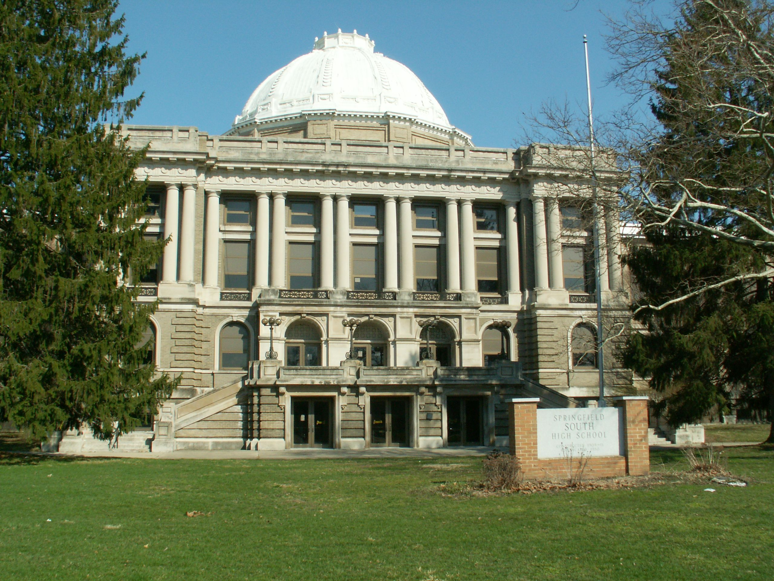 A front view of South High School, at Springfield, Ohio, United States.